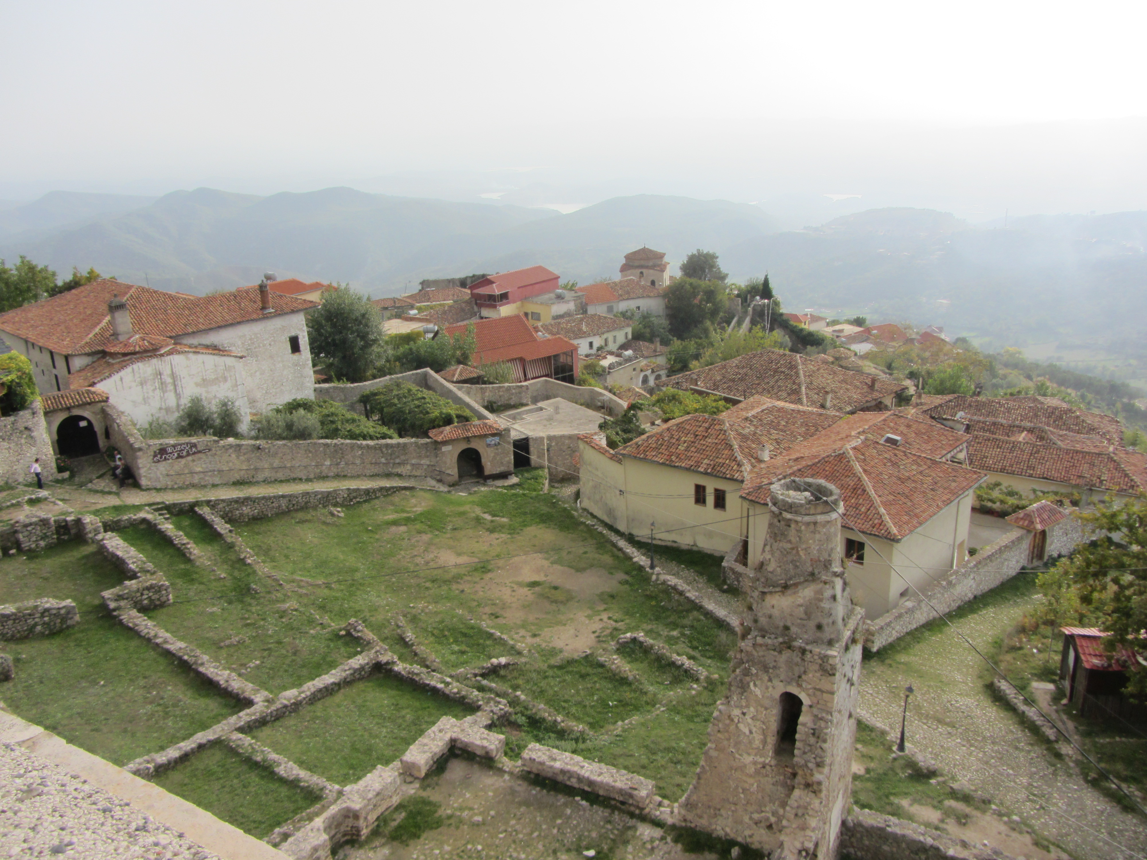 The remains of Krujë Castle seen through a window in Skanderbeg Museum